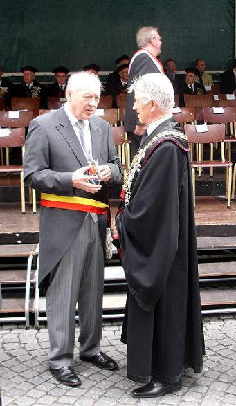 Patrick Moenaert, at the Procession of the Holy Blood